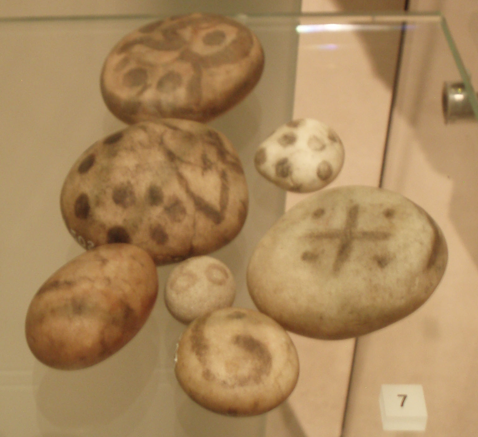 Painted pebbles, Pictish, from Jarlshof